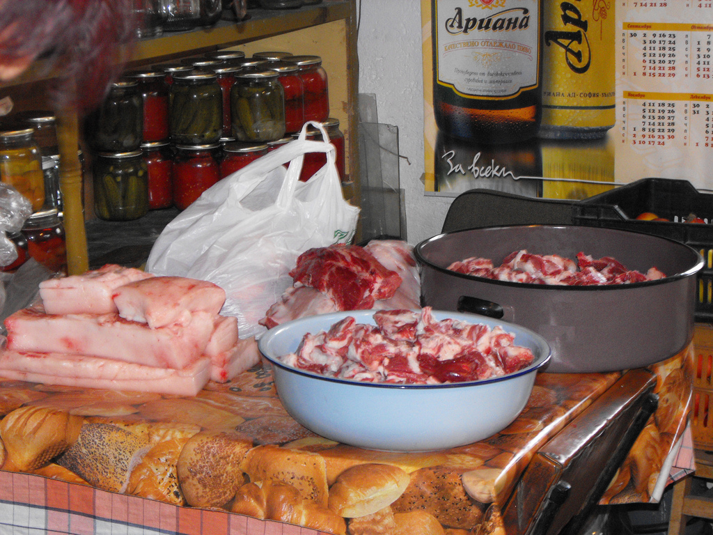 Pork rind prepare